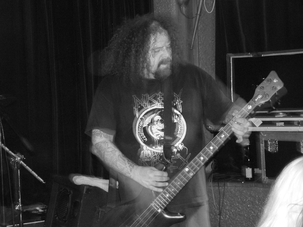 Napalm Death : Shane Embury live at Circus Maximus, Koblenz - Germany